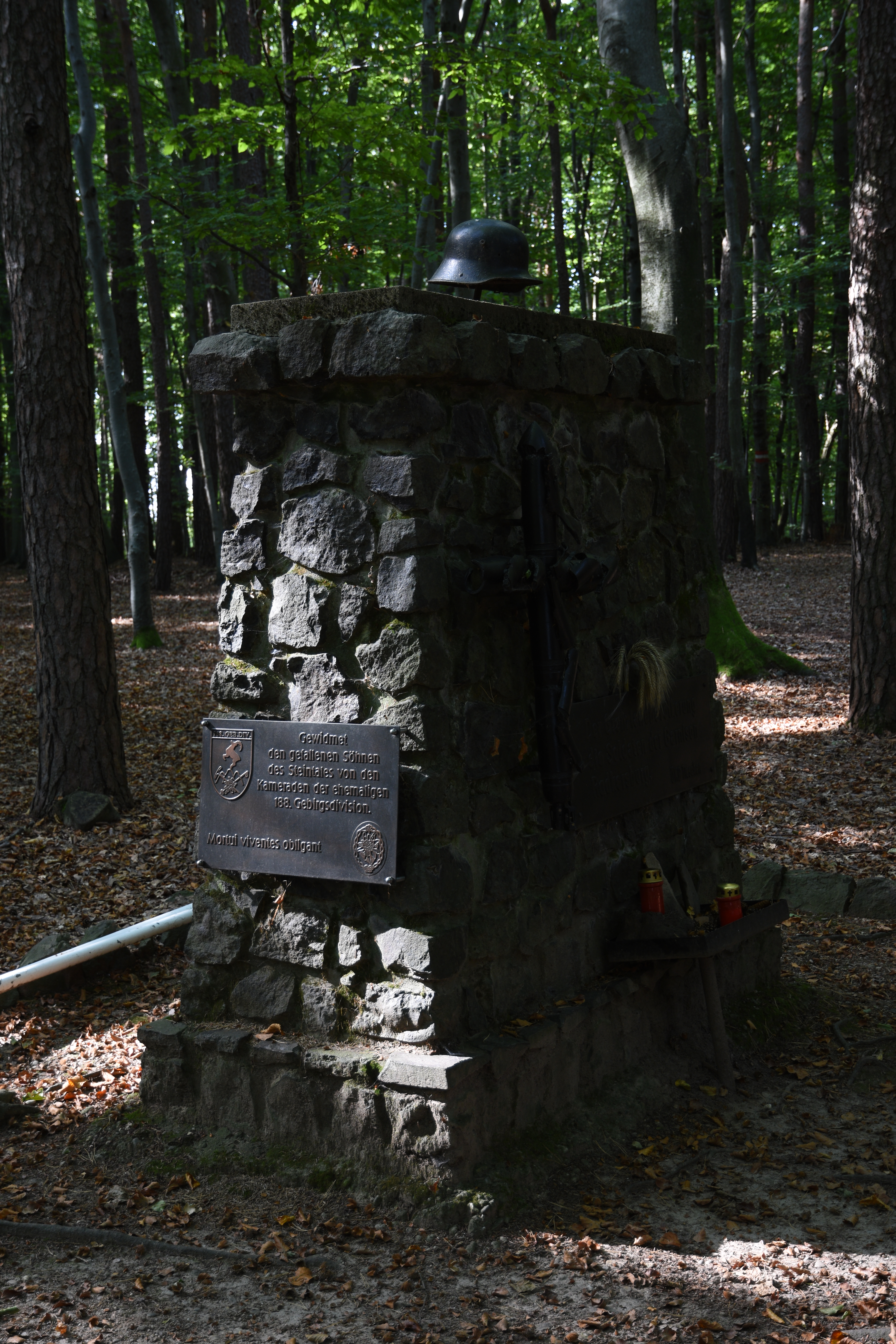 188. Gebirgs-Division (Wehrmacht)